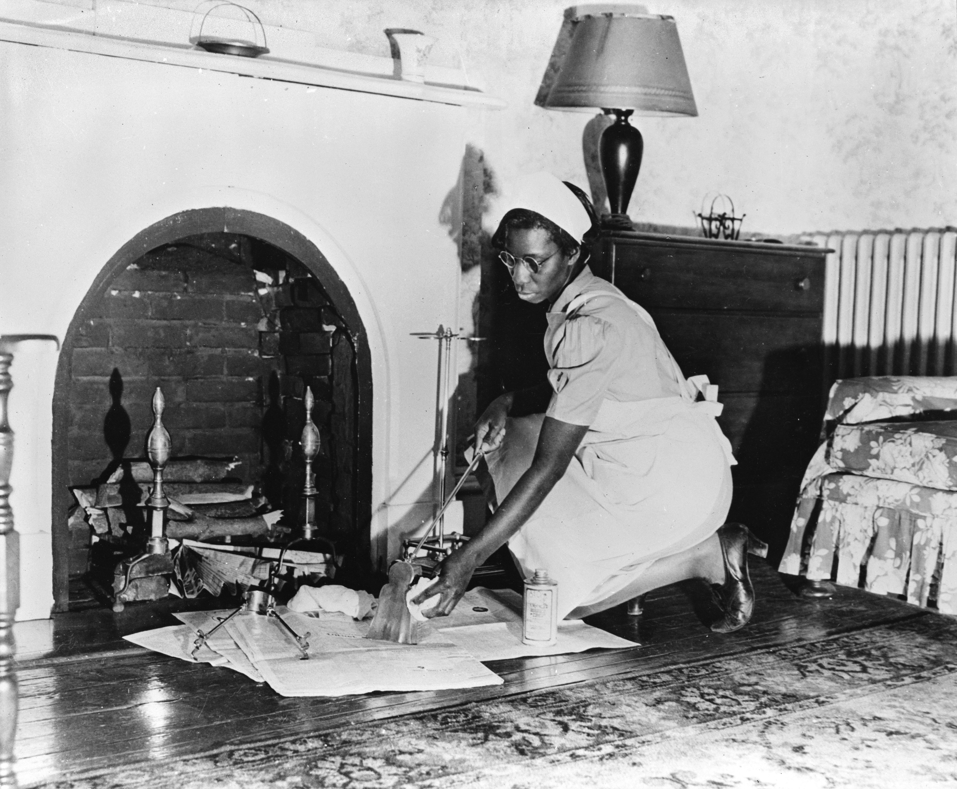 USA c. 1942: Photo of an African American woman in domestic servant uniform kneeling in front of a fireplace in a bedroom, cleaning fireplace tools over newspapers laid on floor. Original caption: A Negro maid.